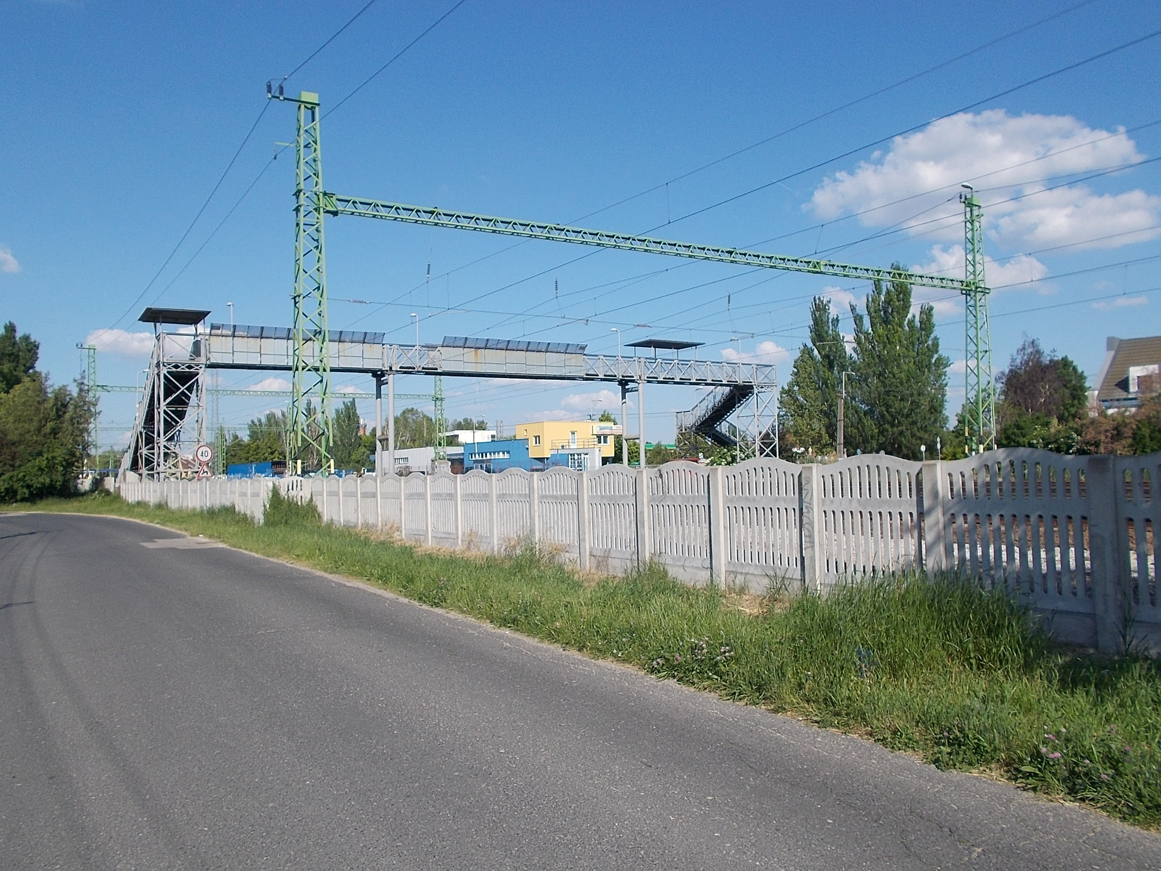 Footbridge over Budapest–Martonvásár–Székesfehérvár railway line close to Gárdony railway station from Keszeg Street, Gárdony, Fejér County, Hungary.